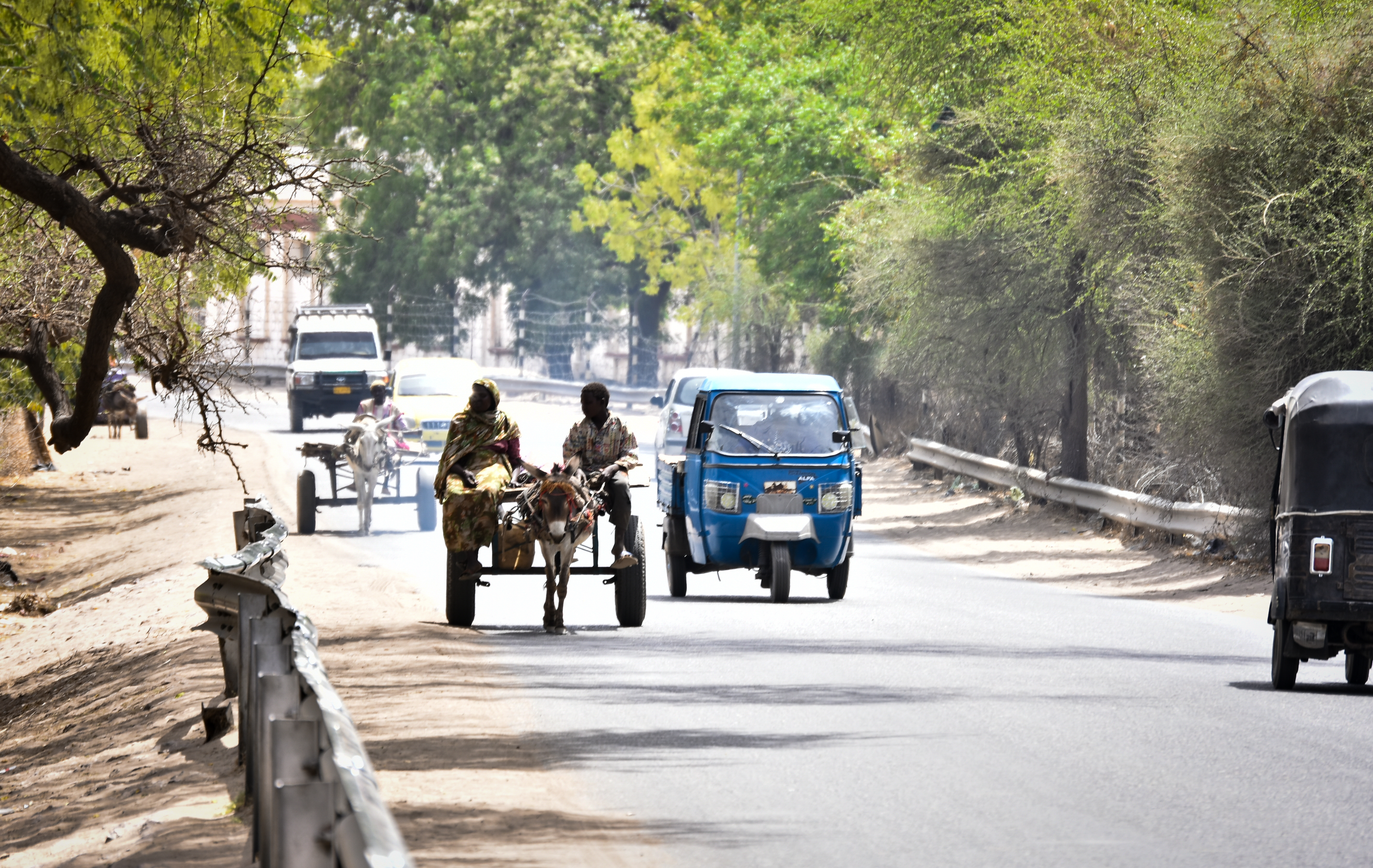 WLASudan2020 السودان ولاية جنوب دارفور . نيالا. كبري مكة This is an image with the theme "Africa on the Move or Transport" from: Sudan